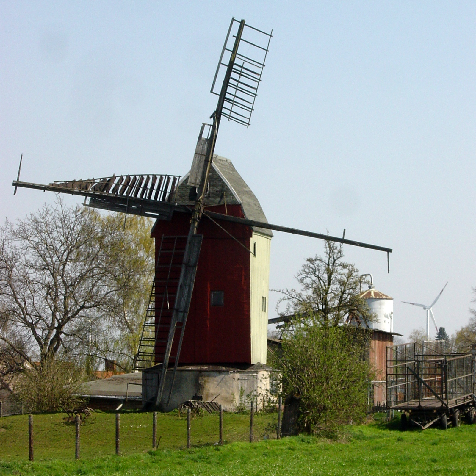 Windmill (post mill) in Groß Rodensleben, Germany